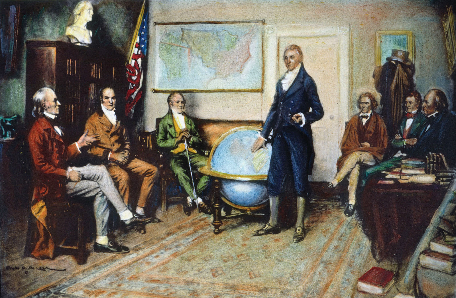 U.S. President James Monroe presides over a cabinet meeting in 1823, discussing the Monroe Doctrine. Depicted people: John Quincy Adams, William H. Crawford, William Wirt, James Monroe, John C. Calhoun, Daniel D. Tompkins and John McLean